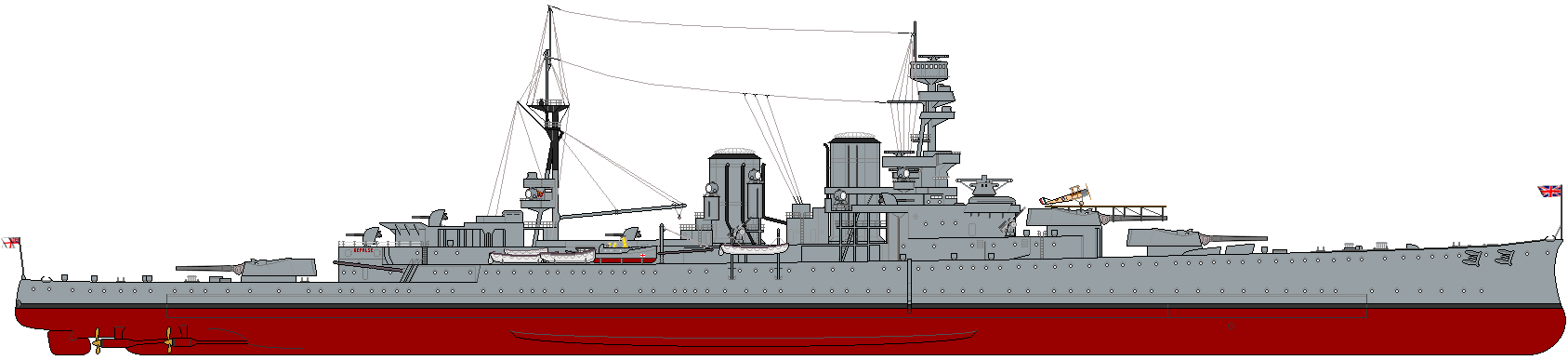 HMS Repulse, Royal Navy battlecruiser, as she was in 1919.